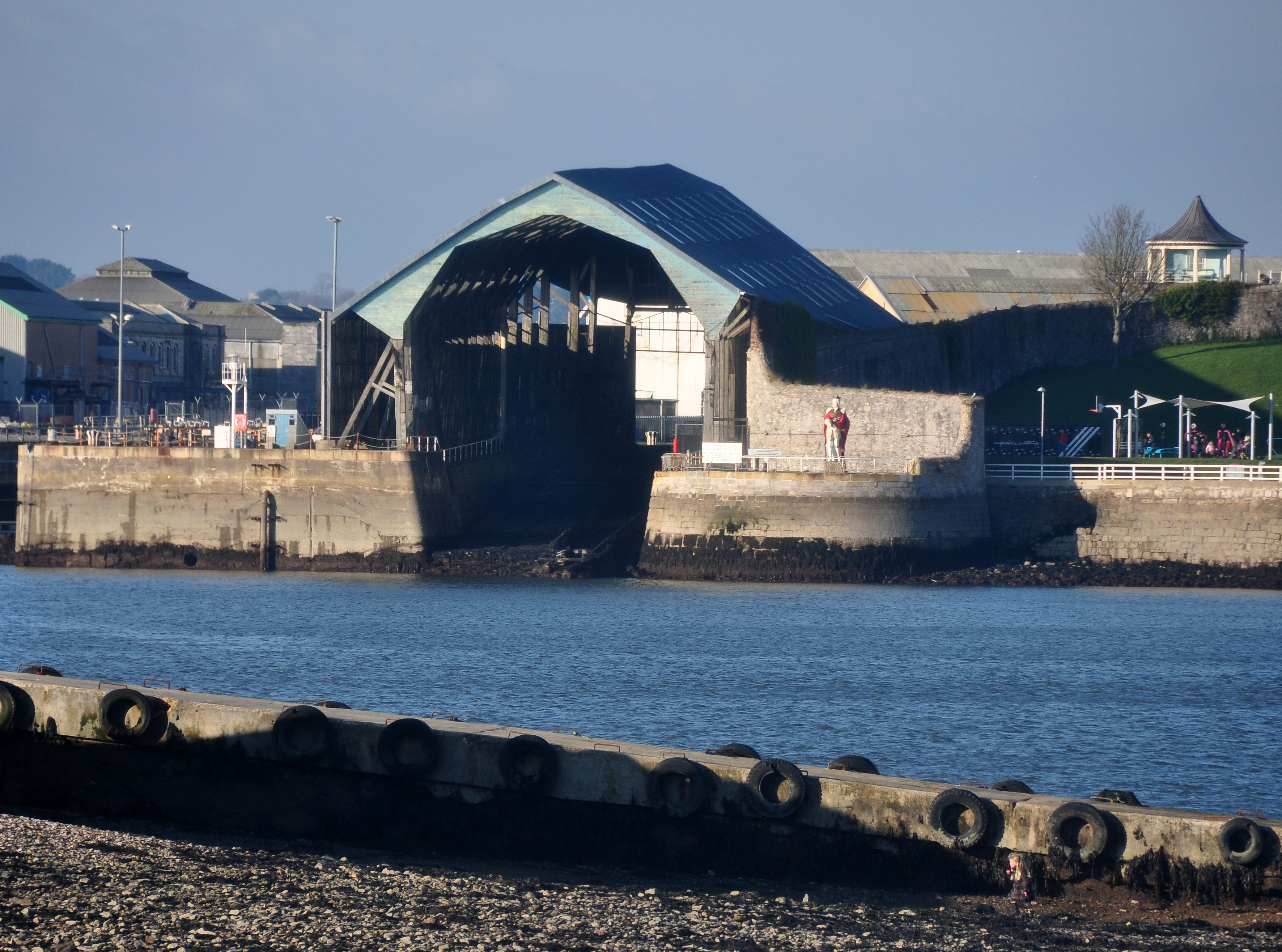 The Covered No 1 slip at Devonport Dockyard, seen across the Hamoaze from Cremyll.